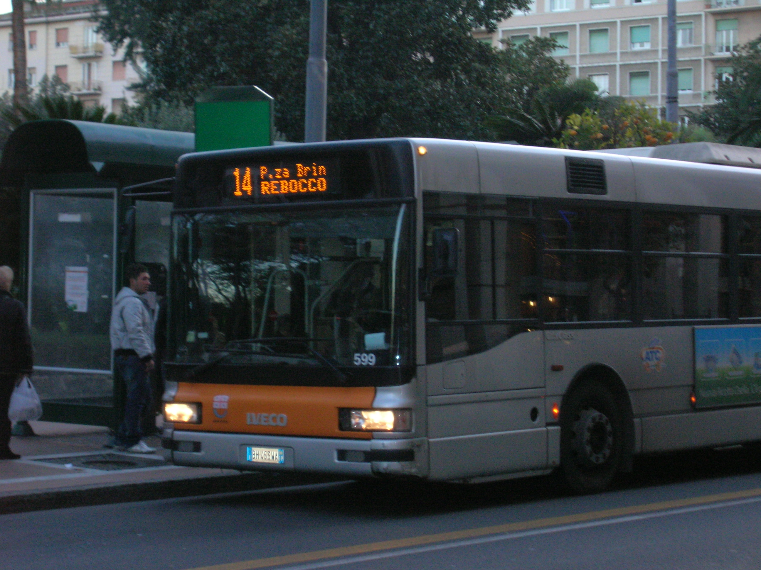 La Spezia - Autobus ATC, Iveco City Class.